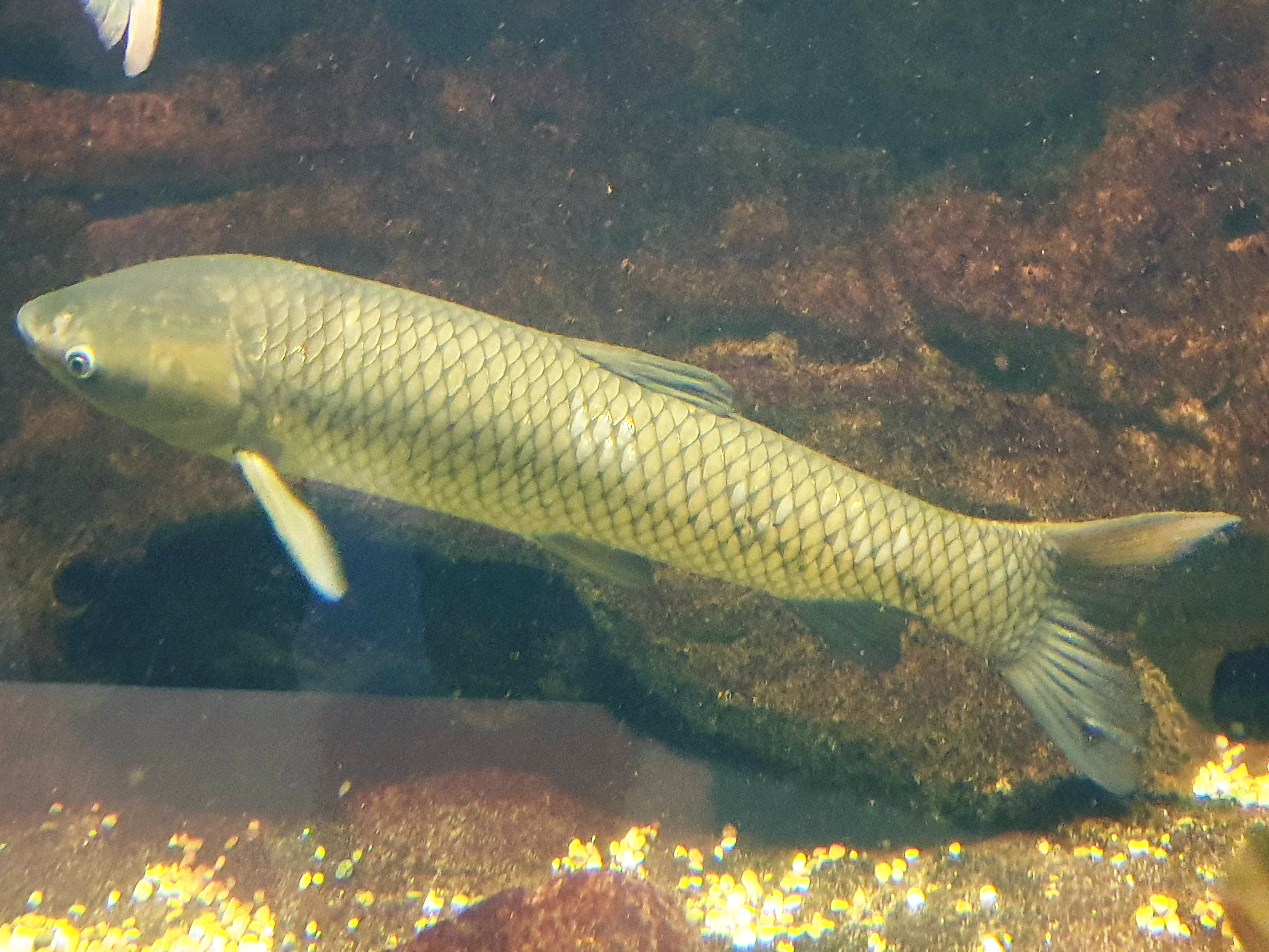 Grass carp (Ctenopharyngodon idella) at the Bodorka Balaton Aquarium in Balatonfüred, Hungary.